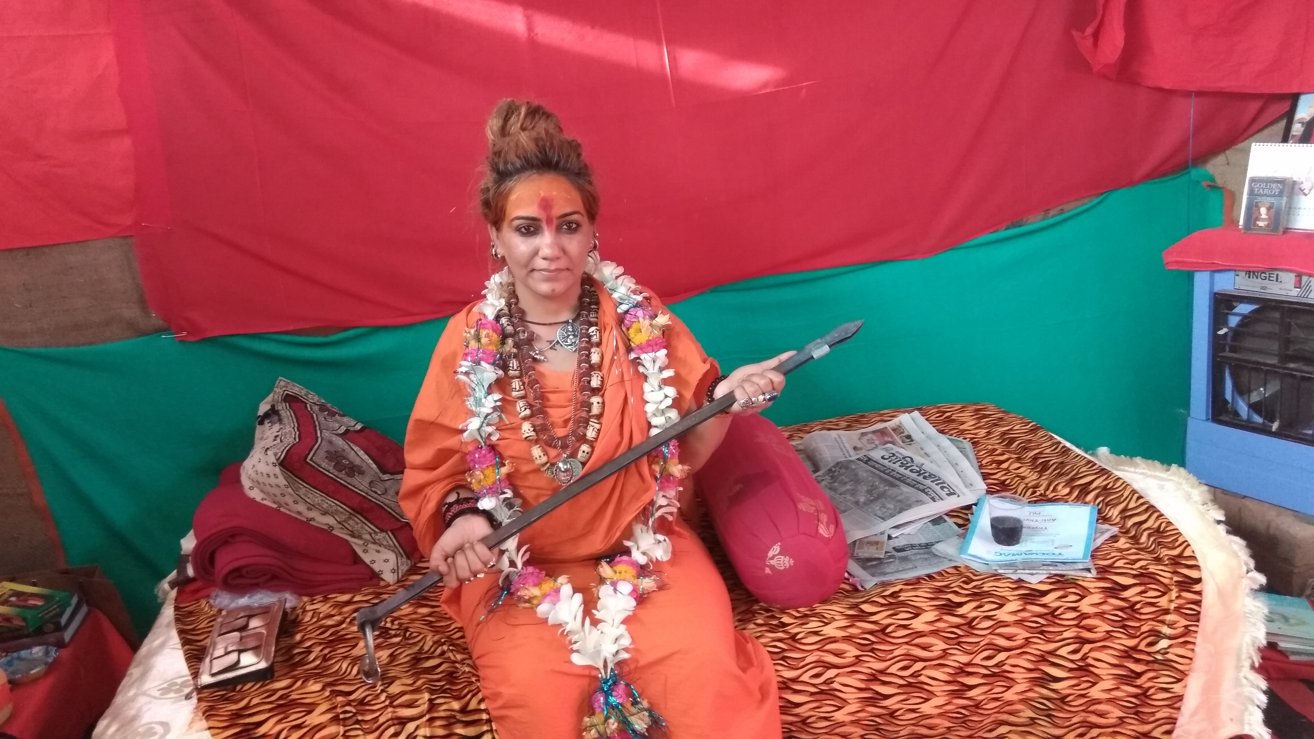 An Aghori tantrik